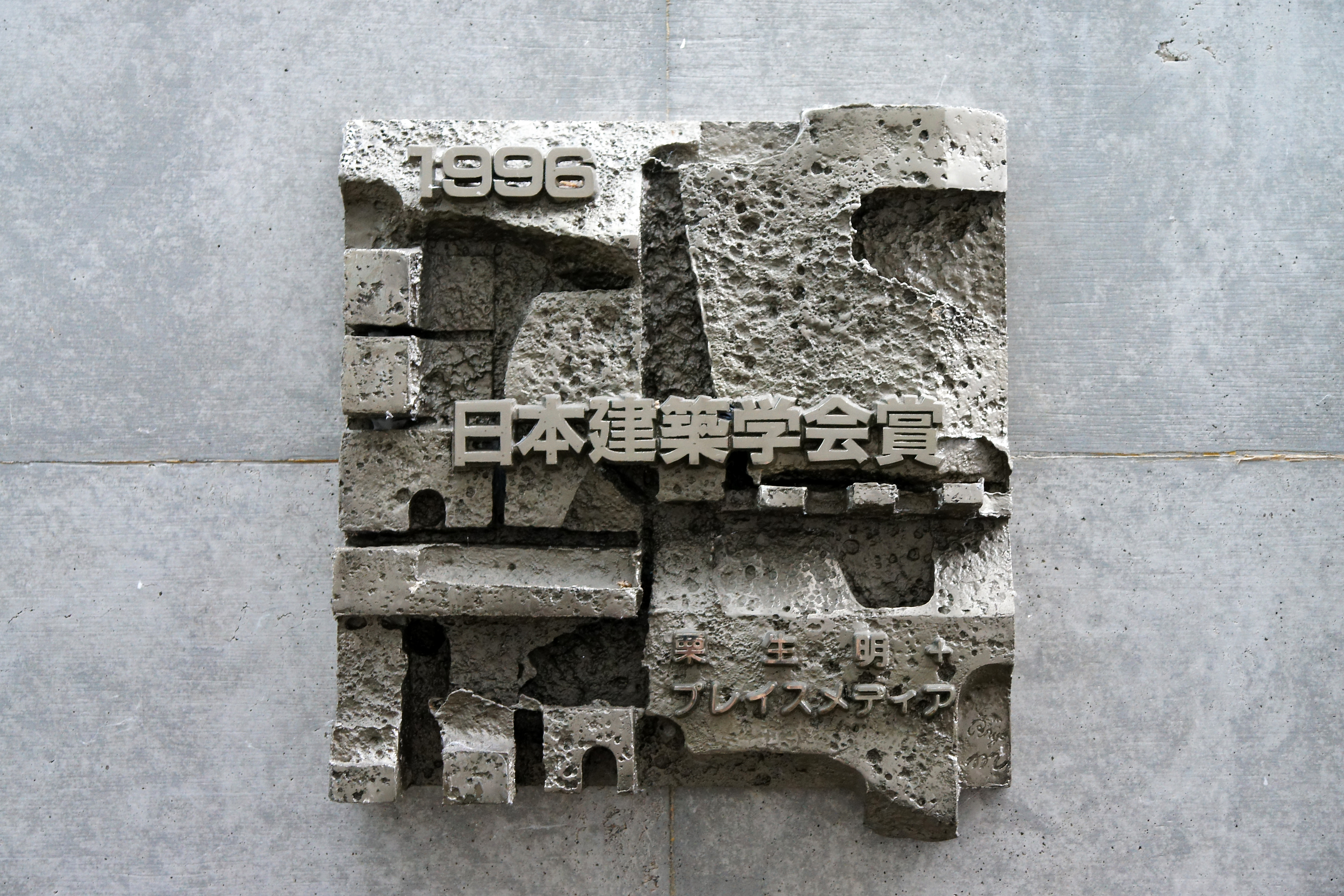 Uemura Naomi Memorial Museum in Kannabe highlands, Toyooka, Hyogo prefecture, Japan.